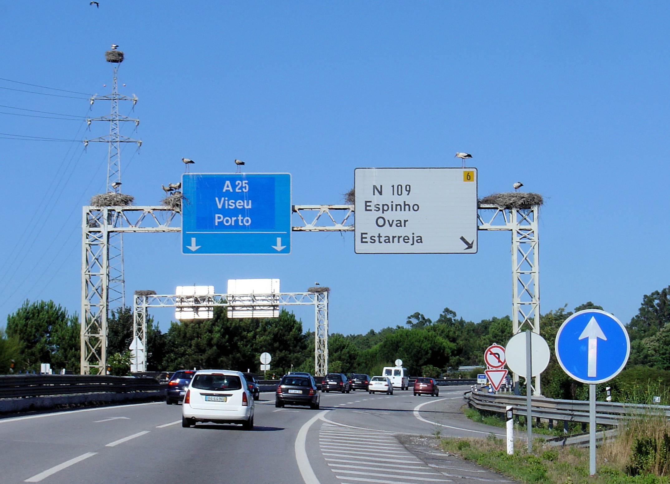 Storks, Portugal